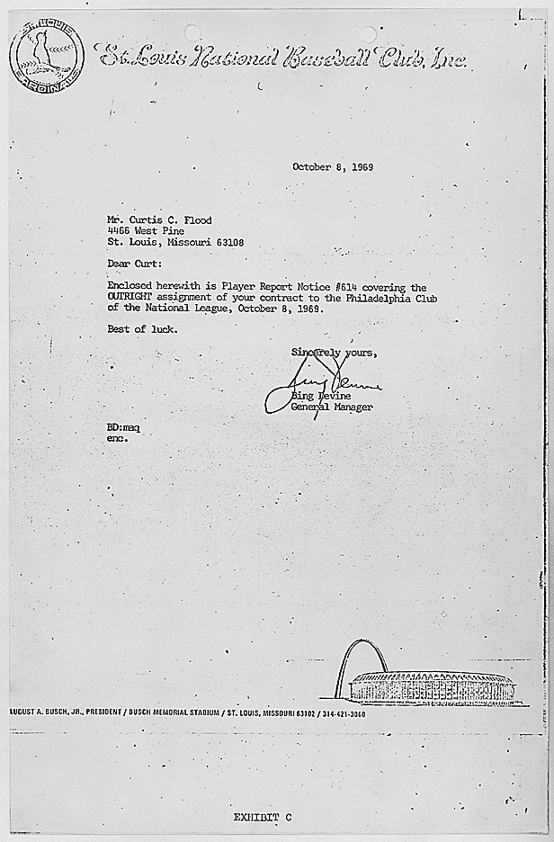 Letter to Curt Flood from Bing Devine informing Flood that he had been traded to the Philadelphia Phillies.